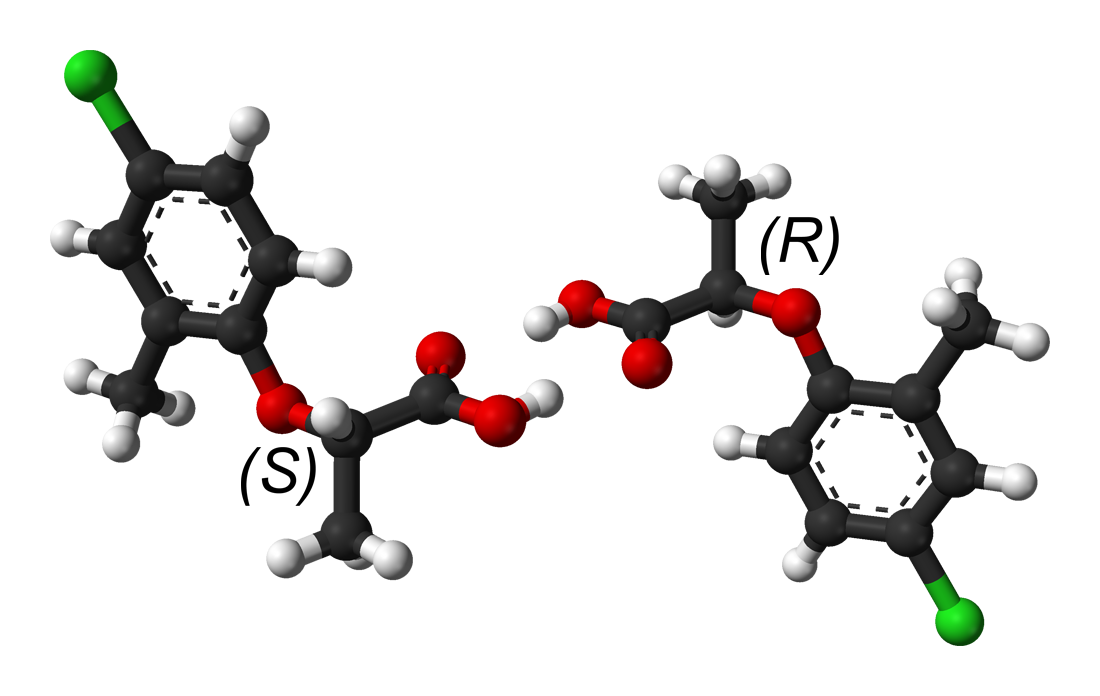 Ball-and-stick model of an enantiomeric pair of mecoprop molecules, as found in the crystal structure of racemic mecoprop. The (S)-(−)-enantiomer is on the left; the (R)-(+) enantiomer is to the right. X-ray crystallographic data from G. Smith, C. H. L. Kennard, A. H. White and P. G. Hodgson (April 1980). "(+-)-2-(4-Chloro-2-methylphenoxy)propionic acid (mecoprop)". Acta Cryst. B36 (4): 992-994. Model constructed in CrystalMaker 8.1. Image generated in Accelrys DS Visualizer.